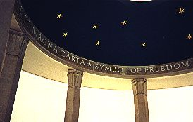 Detail of the Magna Carta monument at Runnymede. I took this photo some time in the early Eighties.